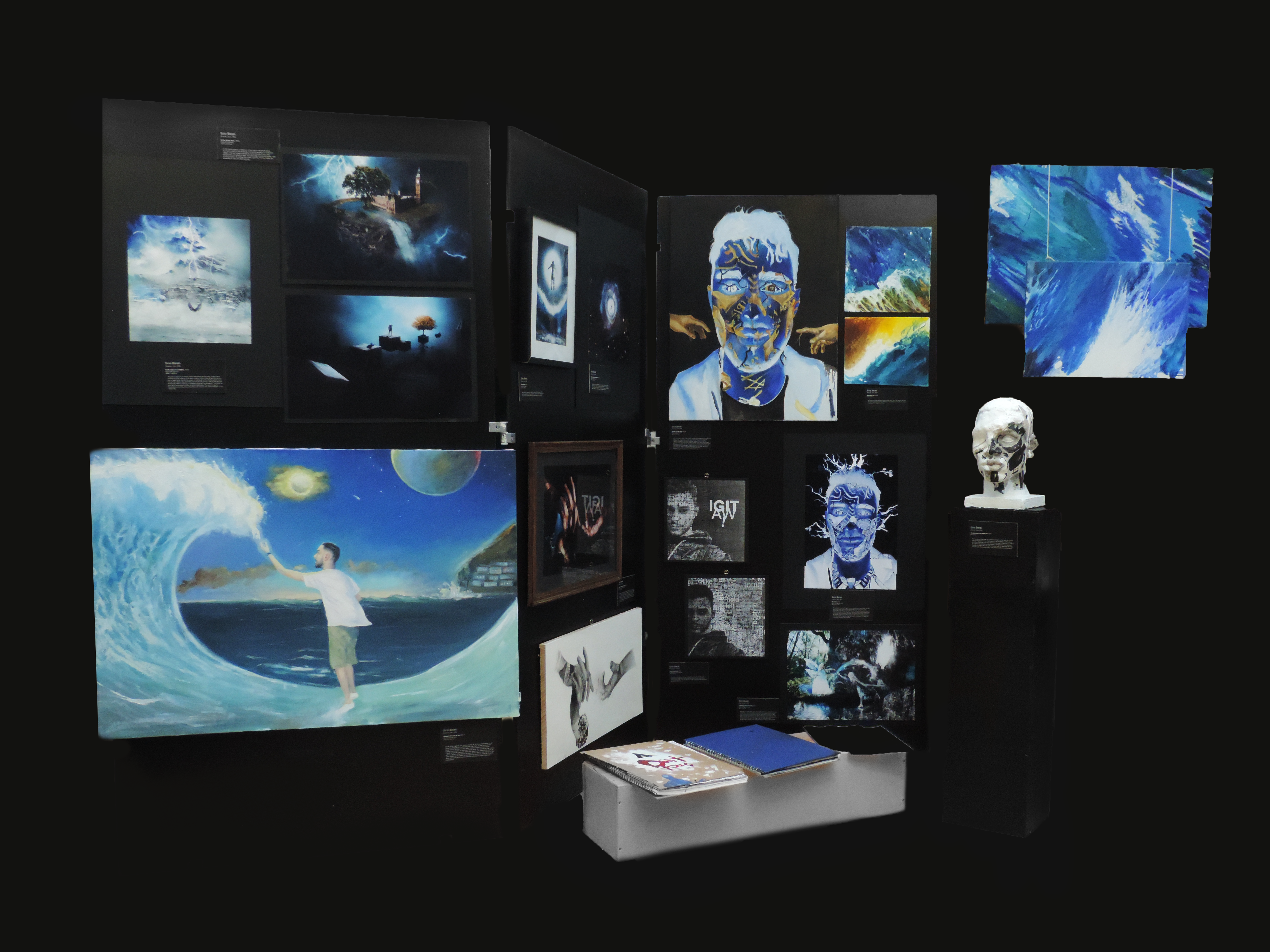 Approaching Chaos Exhibition photograph